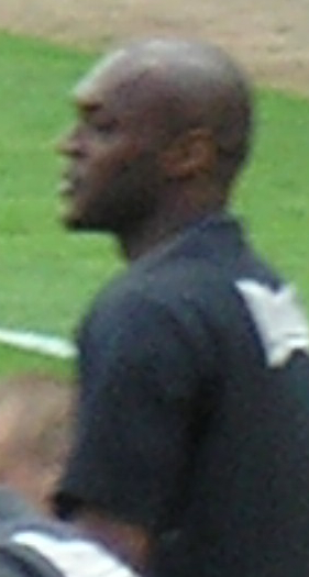 Marcus Gayle warming up for Brentford, April 2006.